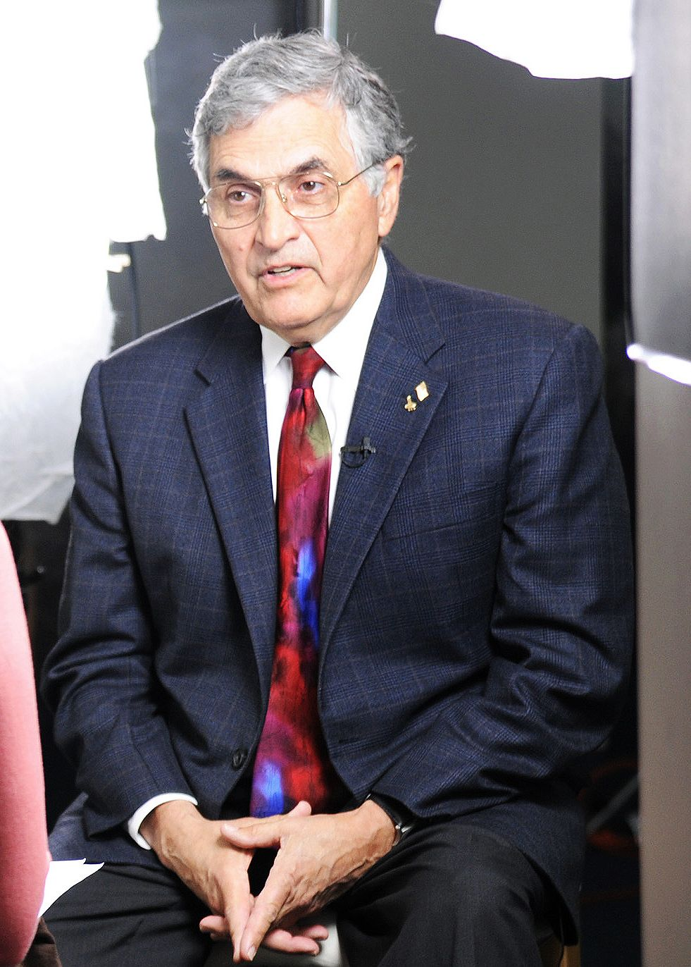 Harrison "Jack" Schmitt at NASA's Goddard Space Flight Center, June 3, 2009.